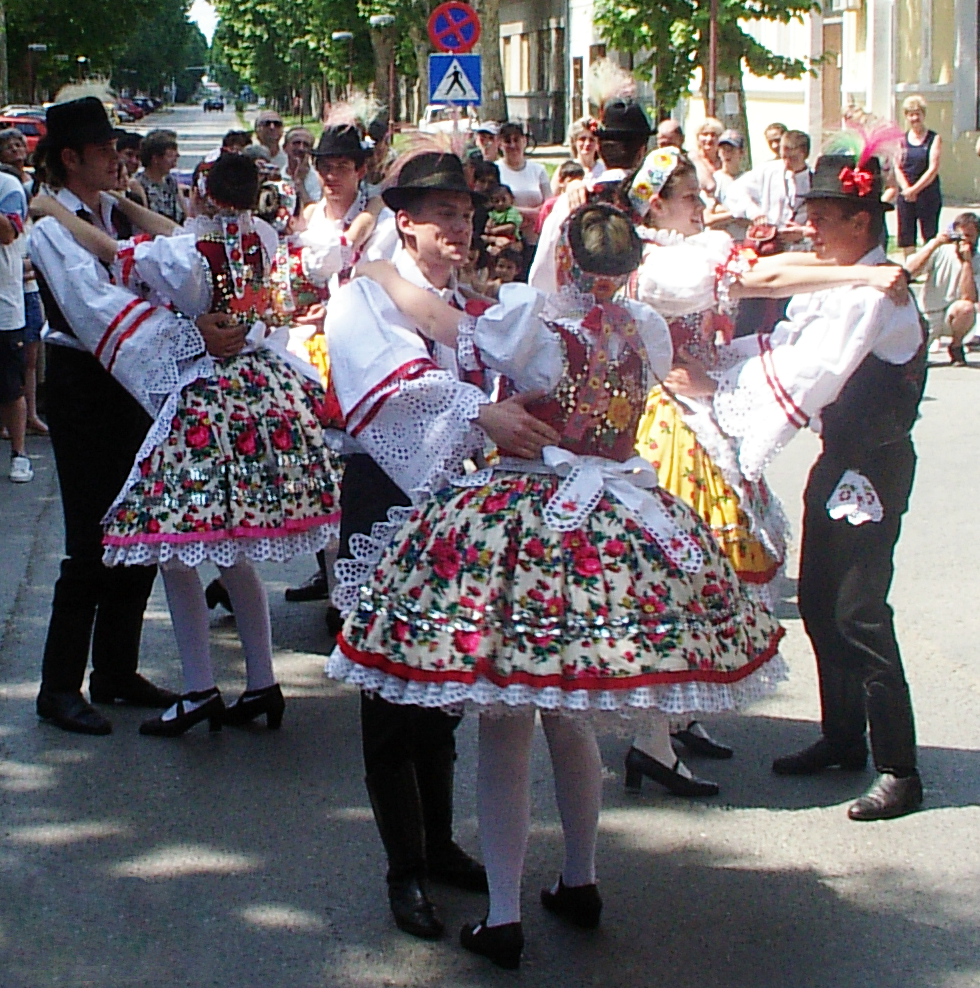 Voivodina Hungarians (Kupusina and Doroslovo) national costume and dance.